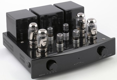 k502 mystere